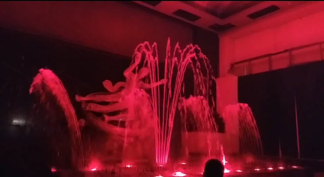 Waltzing water